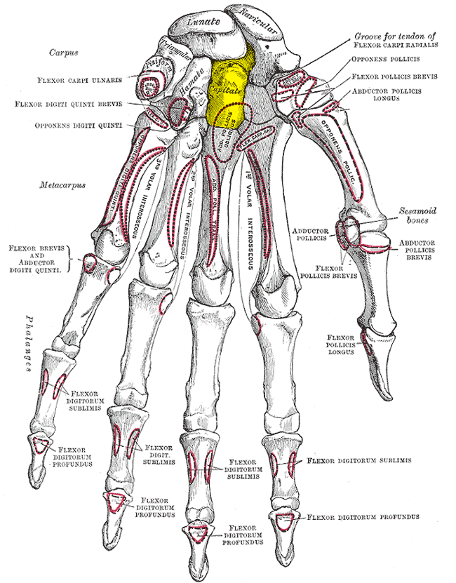 Bones of the left hand. Palmar surface.